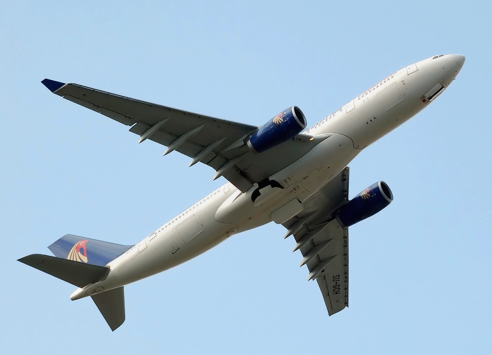 Egyptair Airbus A330-200 (SU-GCH) takes off from London Heathrow Airport, England.